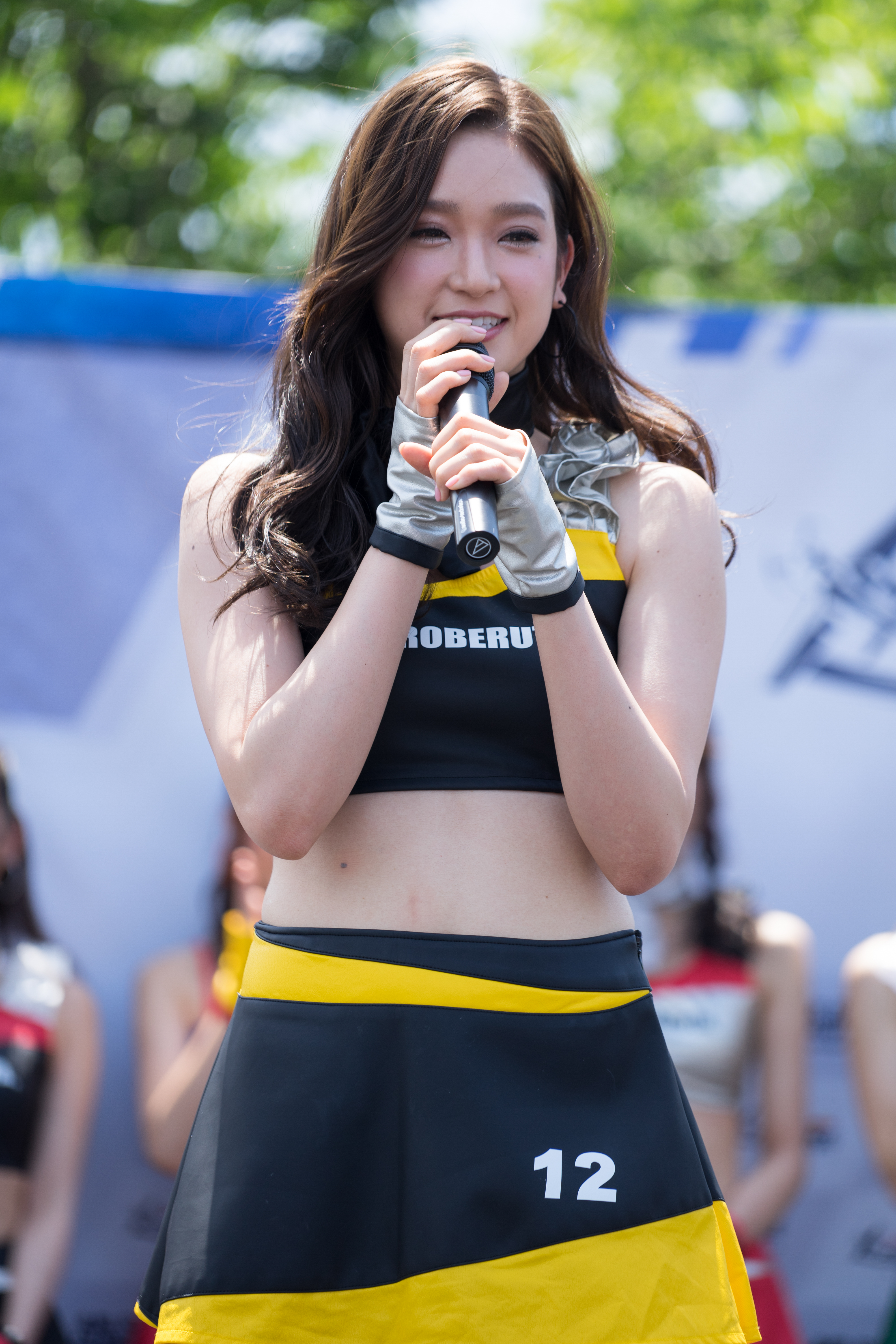 RED BULL AIR RACE CHIBA 2017-270.jpg